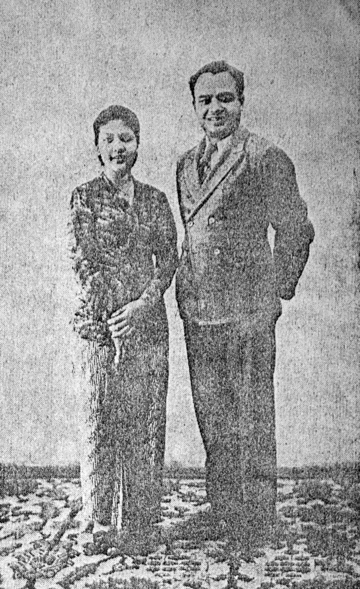 Indonesian film star Roekiah and her husband, Kartolo.